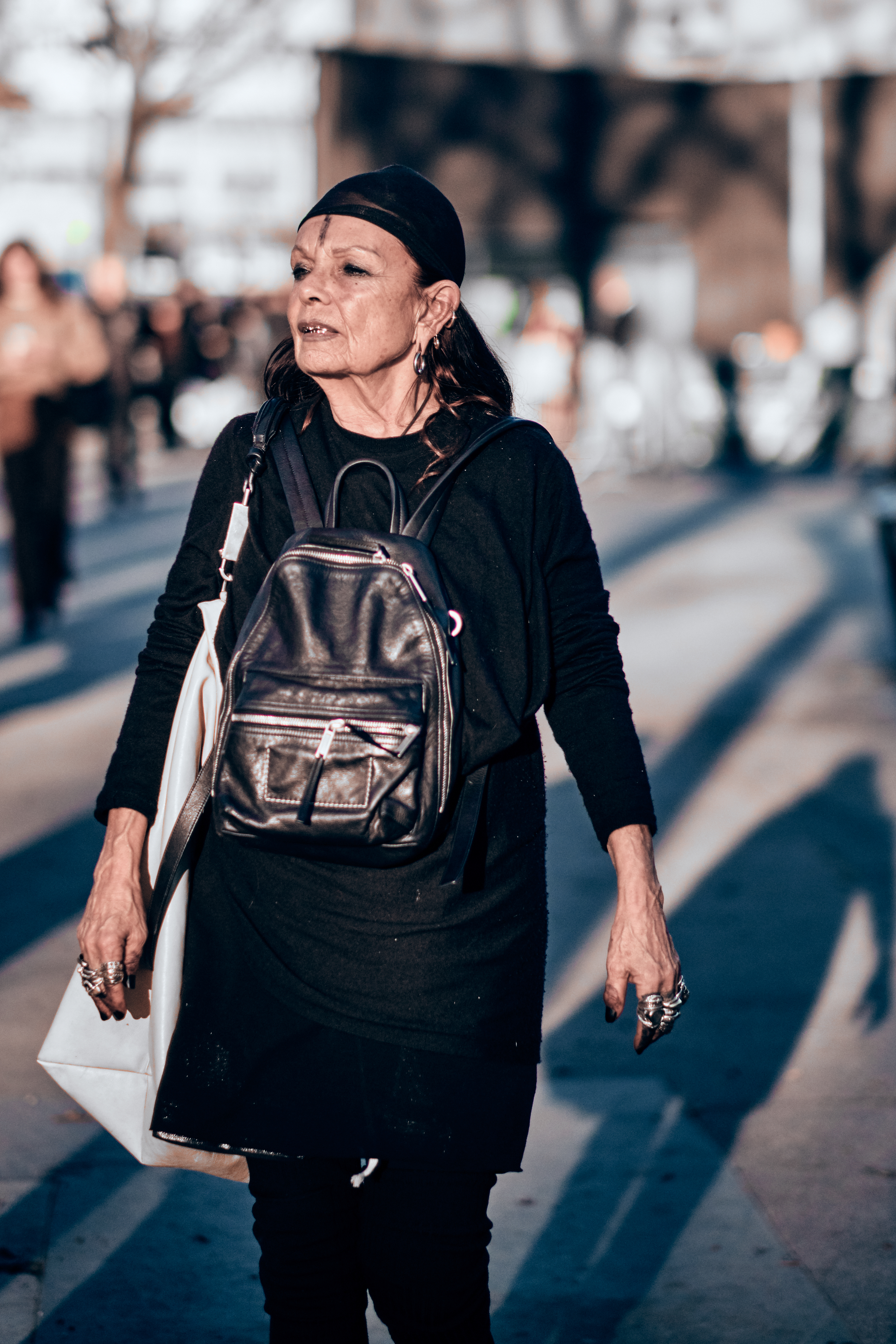 Michele Lamy at Paris Fashion Week Autumn/Winter 2019